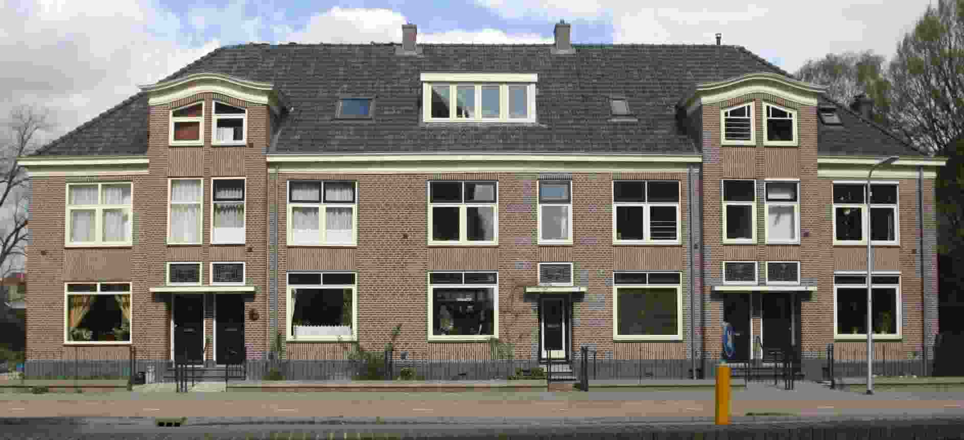 Block of five houses on the Pothoofd, Deventer, after renovation. Originally occupied by the habour masters.